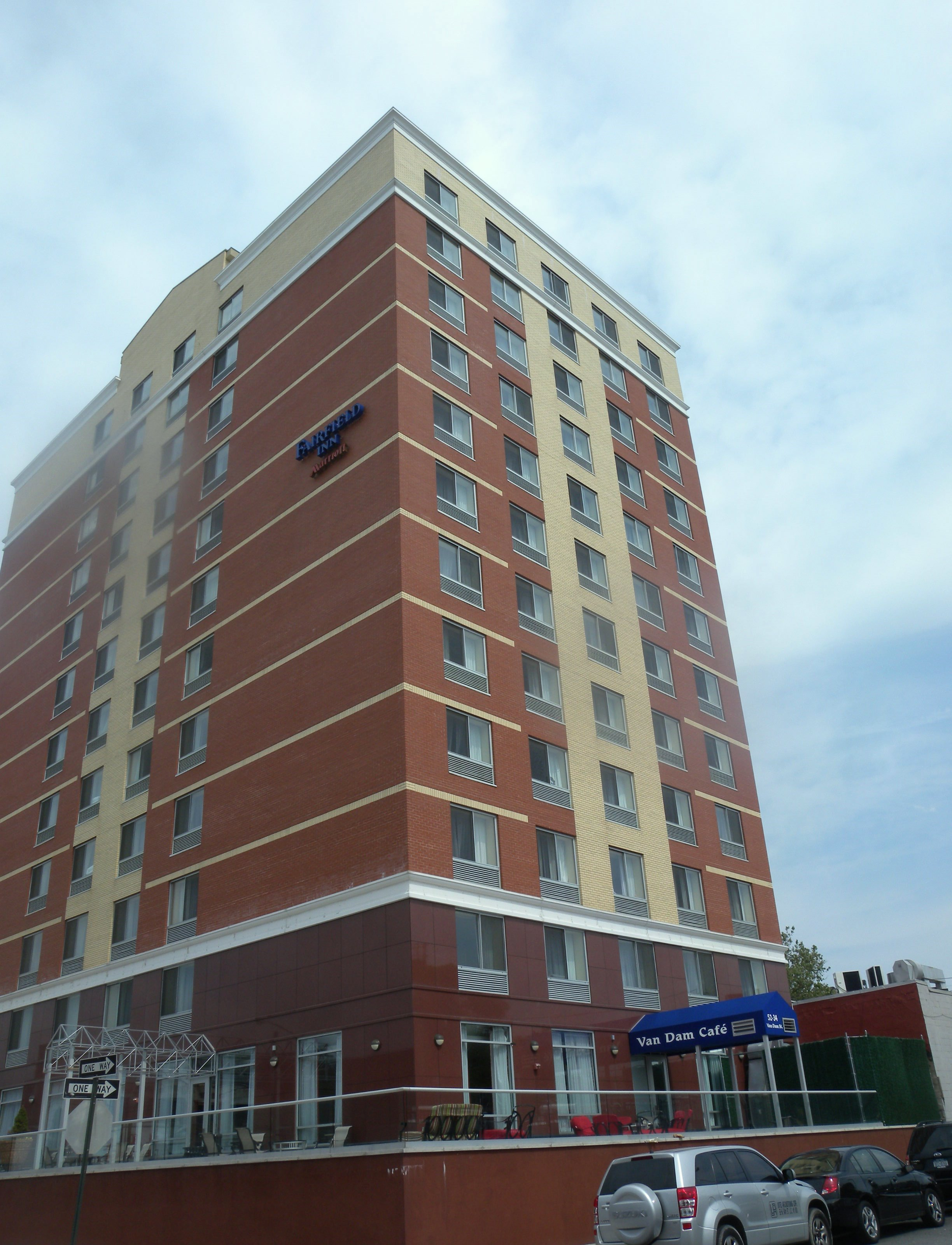 Looking east across Starr Avenue at Fairfield Inn on a mostly sunny midday.